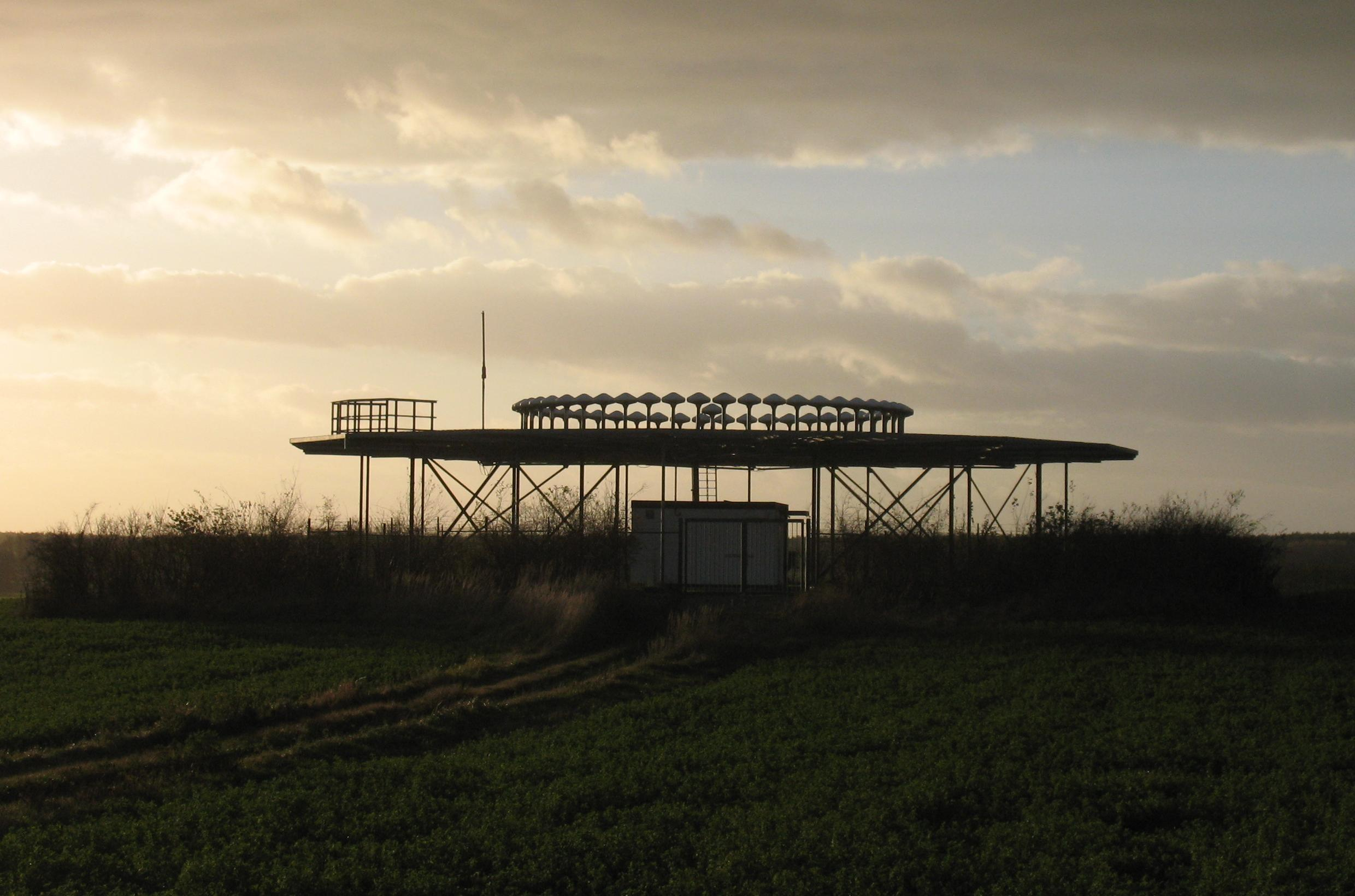 VOR ground antenna near Hoppenrade (municipality Löwenberger Land) in Brandenburg, Germany